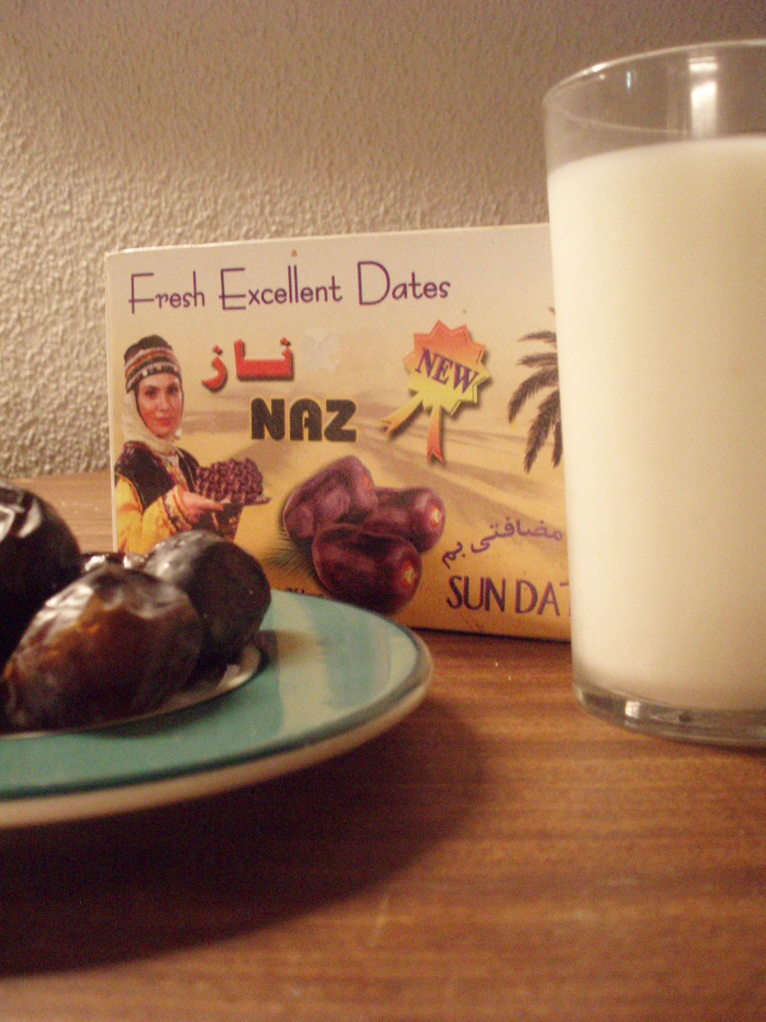 dates and a glass of milk during Ramadan to break fasting at sunset